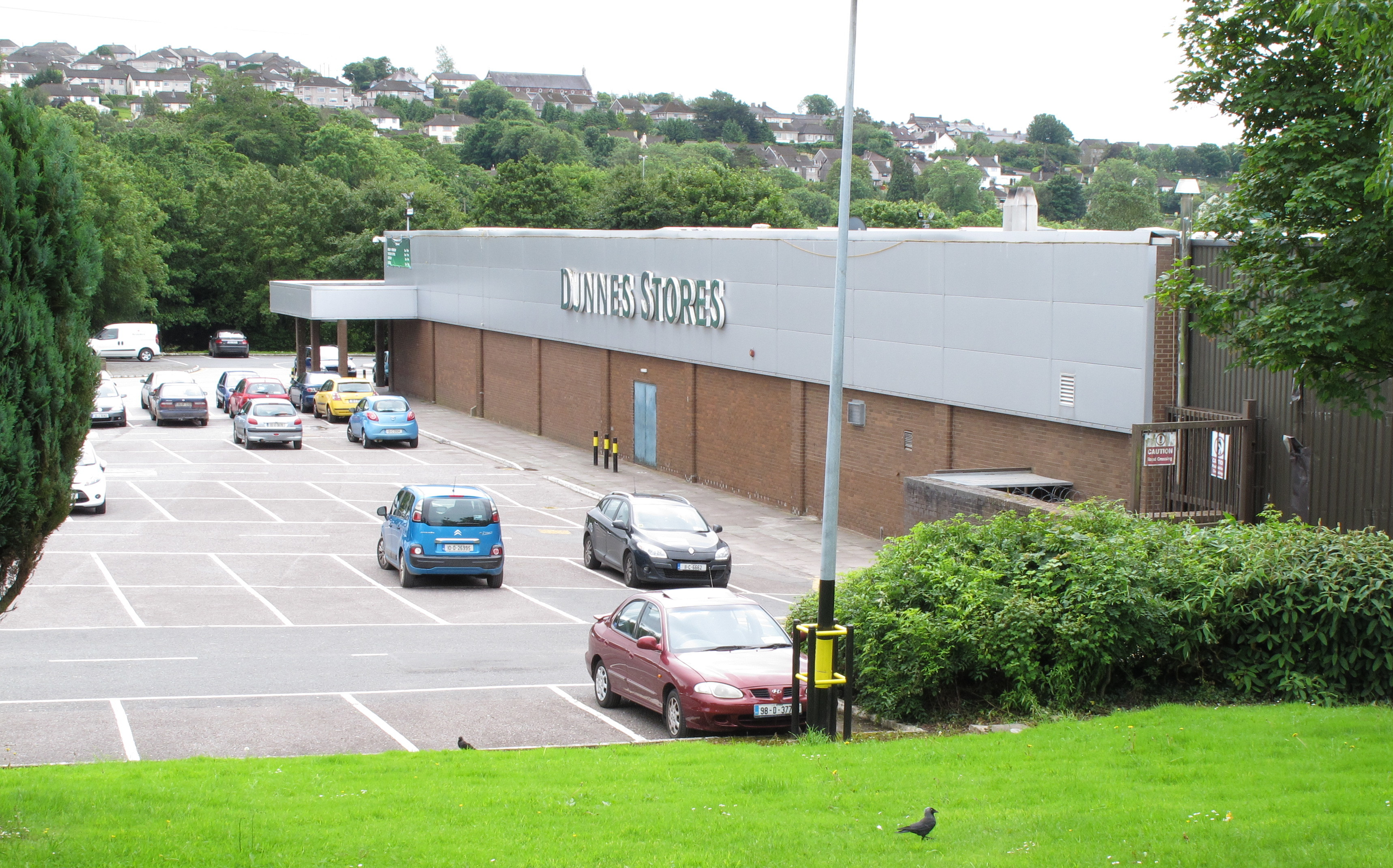 Dunnes Store, Ballyvolane Cross